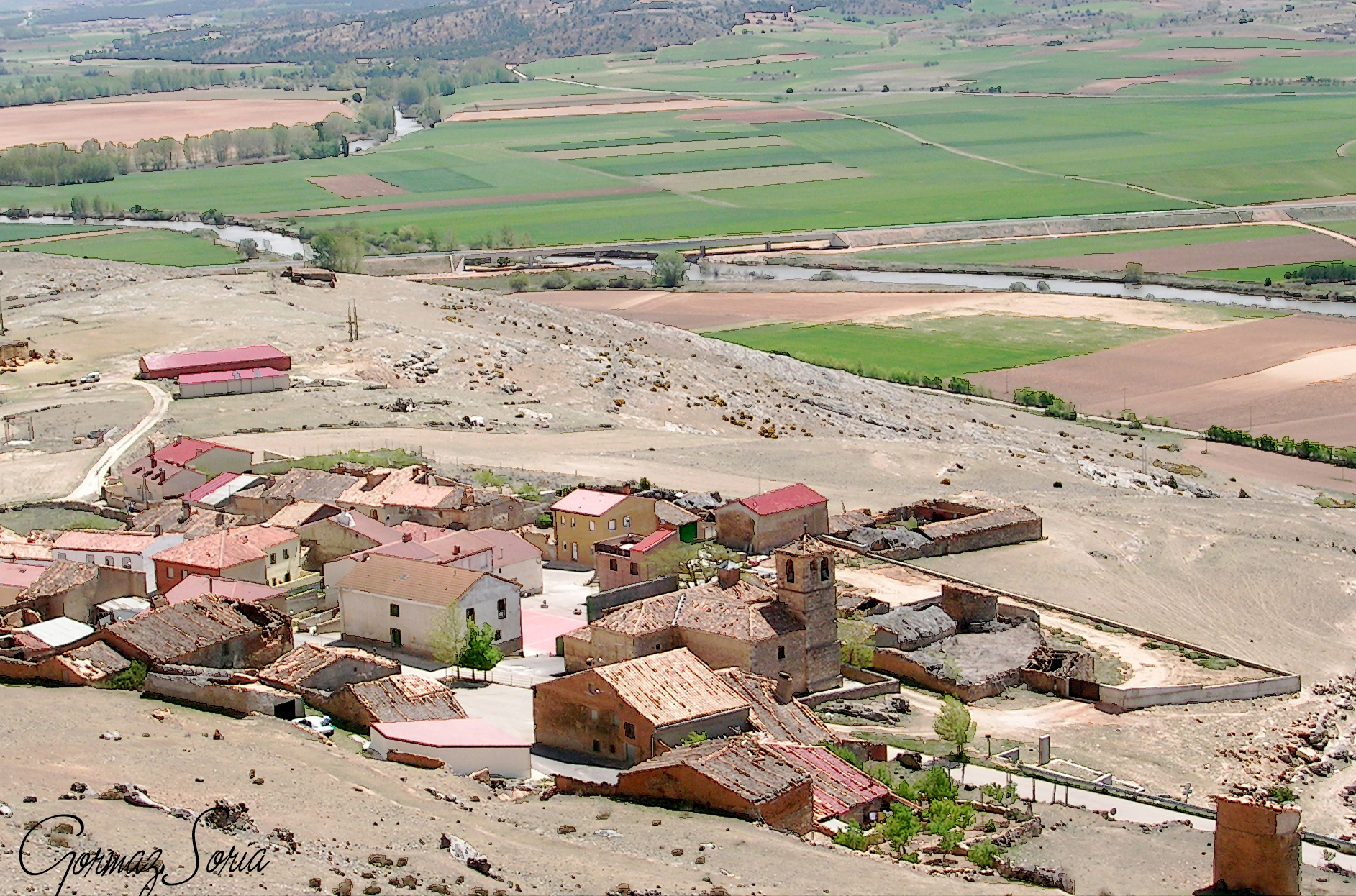 See aboveGormaz. Soria